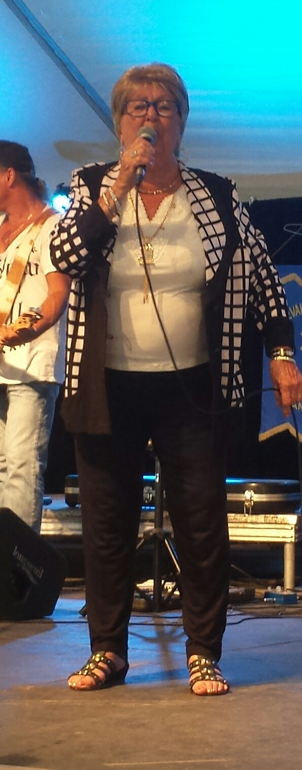 Julie Daraîche photographed in Longueuil , Québec, Canada at the Longueuil Country & Western Festival of the Marie Victorin Park.